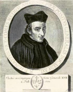 Ignacio Visconti, S.J.